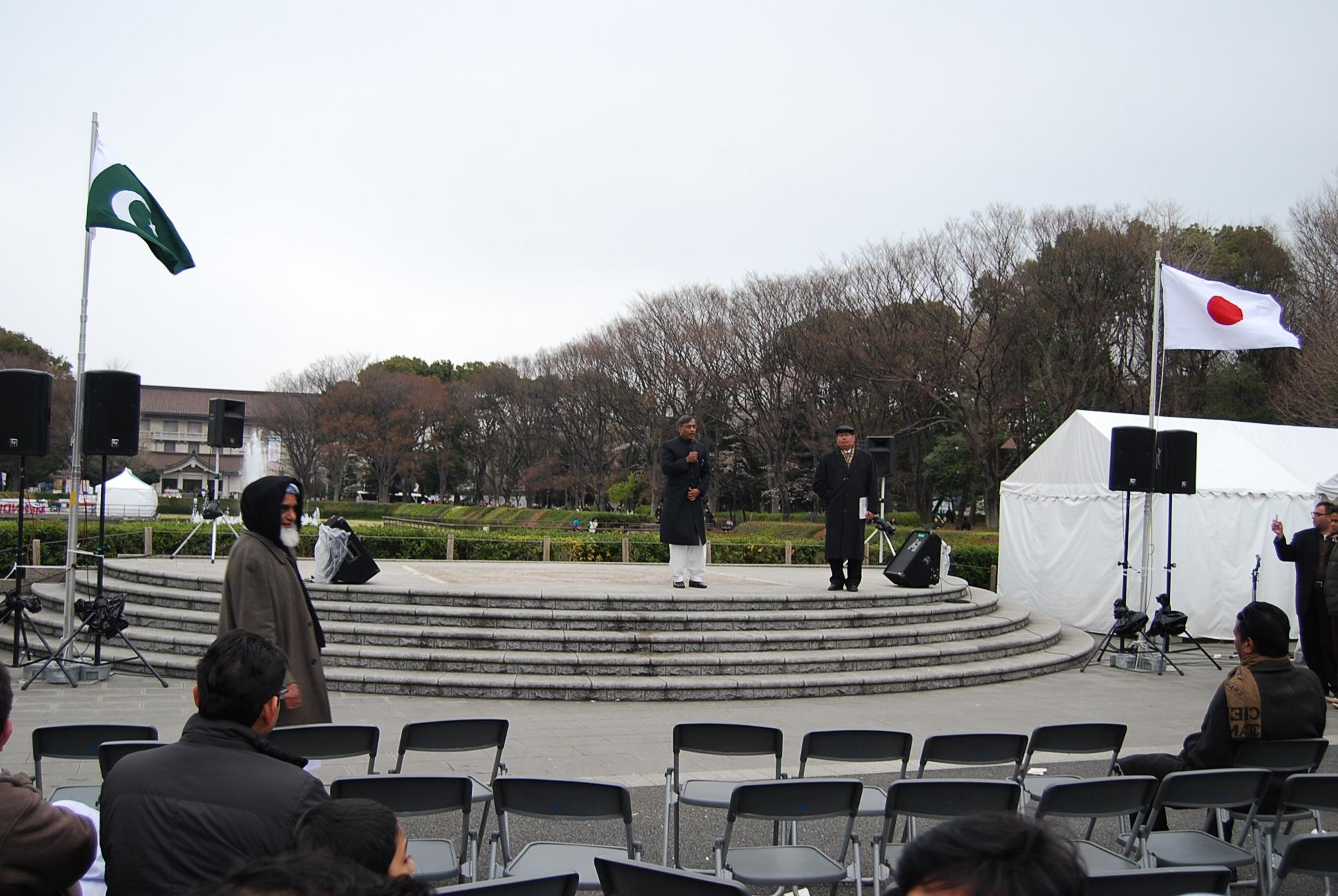 Noor Muhammad Jadmani, current Pakistani ambassador to Japan